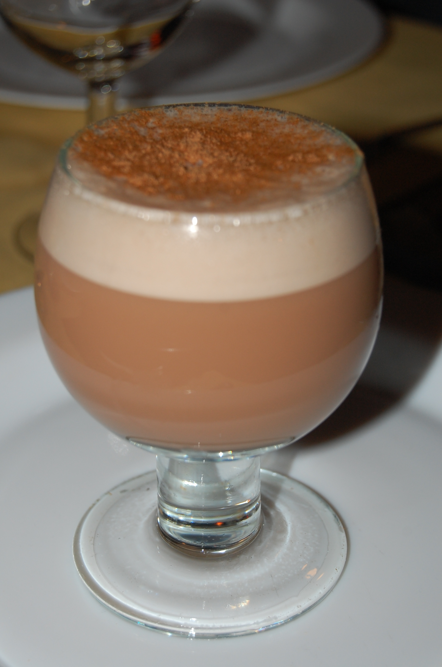 Chilean Vaina, typical Chilean cocktail or apertif